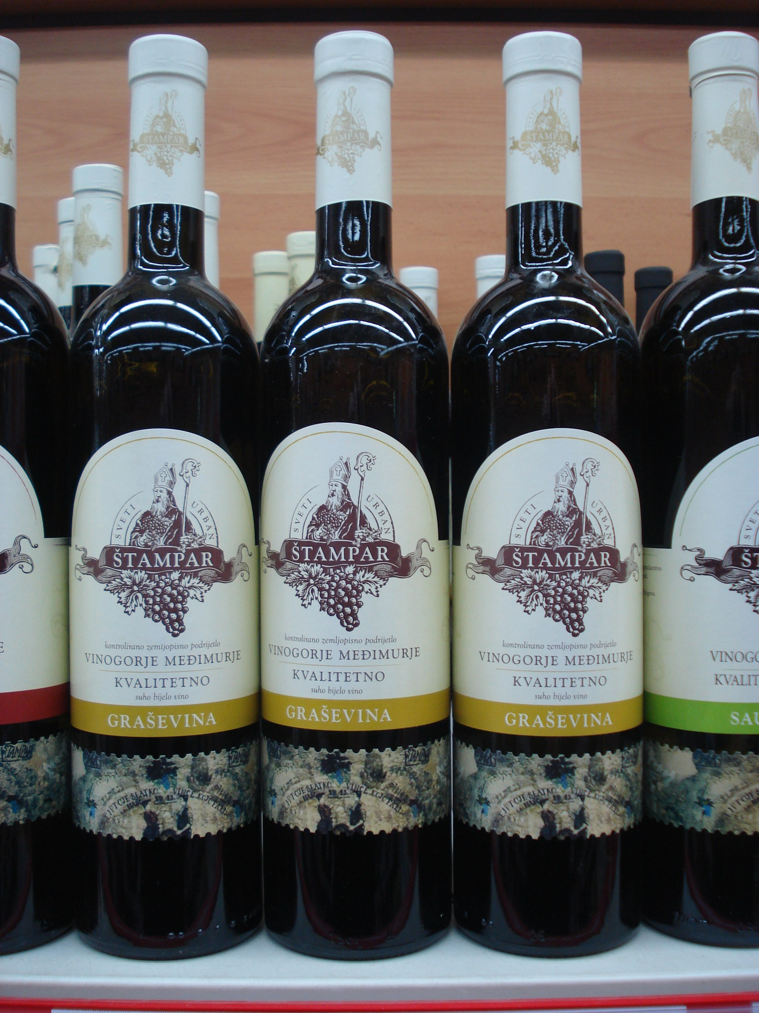 Bottles of Graševina wine (Welshriesling), quality dry white wine with controlled geographical origin, produced in Medjimurie wine growing subregion, northern CroatiaHrvatski: Boce vina Graševina, kvalitetnog suhog bijelog vina s kontroliranim zemljopisnim podrijetlom, proizvedeno u Međimurskom vinogorju, sjeverna Hrvatska